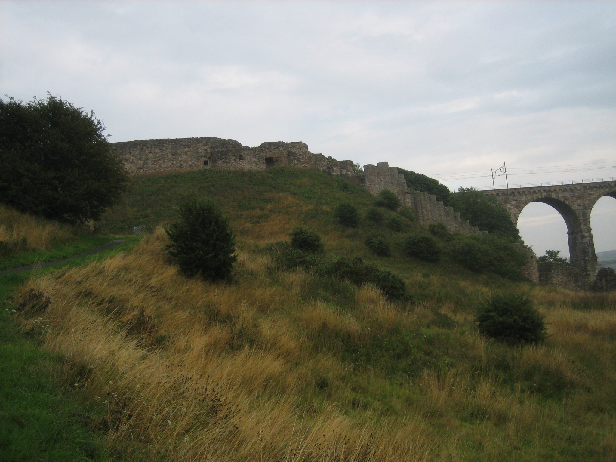 Motte and walls of Berwick Castle